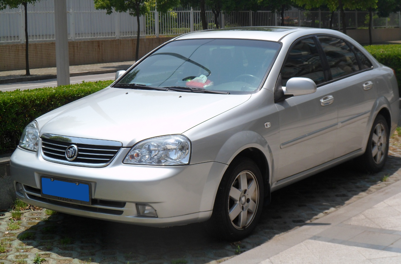 Buick Excelle photographed in Shanghai, China.